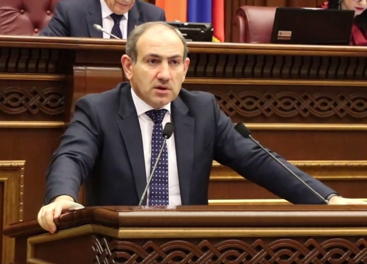 Nikol Pashinyan